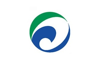 Flag of Maibara Shiga